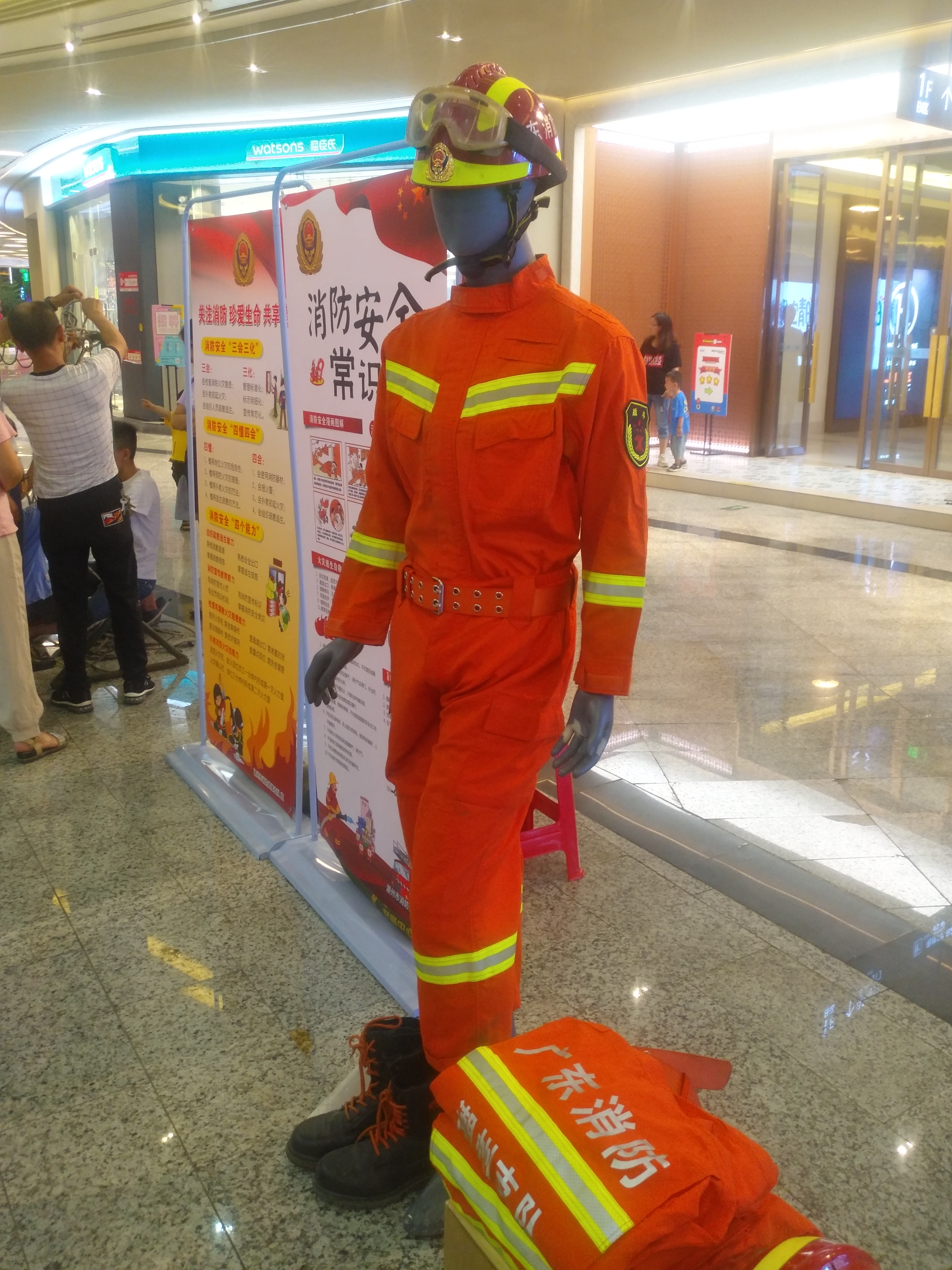 China Fire And Rescue Uniform - Type 2018 - Fire Suit. Photo in Fortune Center, Fengxi District, Chaozhou City, Guangdong Province, China.